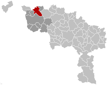 Map, municipality belgium Celles